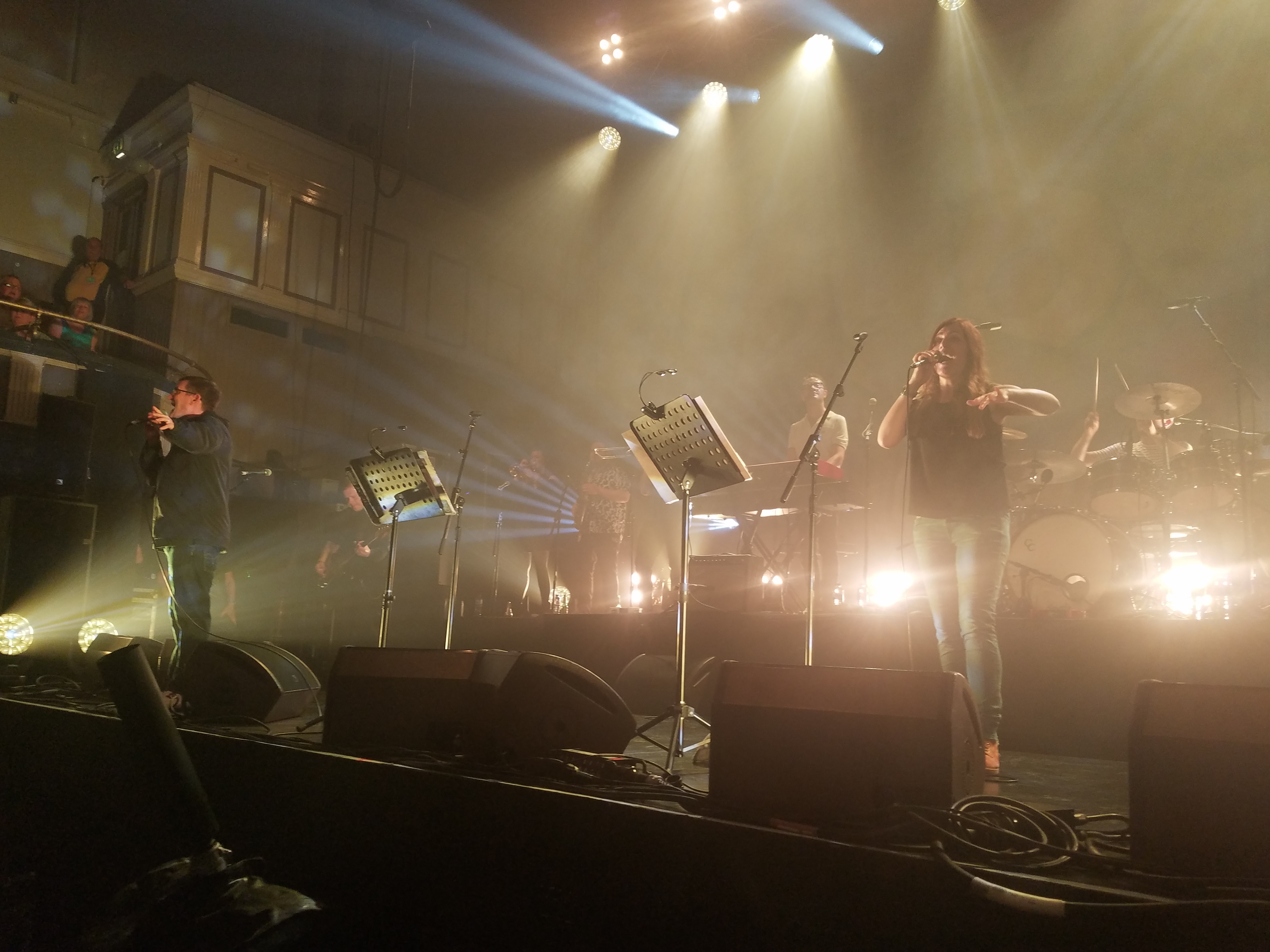 Paul Heaton and Jackie Abbott Performing in Warrington in June 2017.